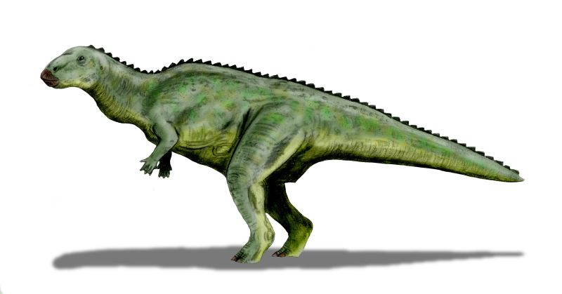 Lanzhousaurus magnidens, an iguanodont from the Early Cretaceous of China, pencil drawing, digital coloring